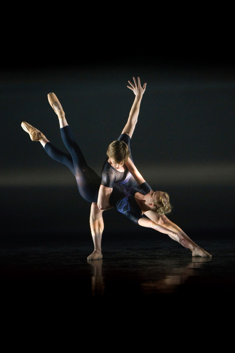 E=MC2 Performed by Birmingham Royal Ballet in February 2011 Tokyo photo: Bill Cooper